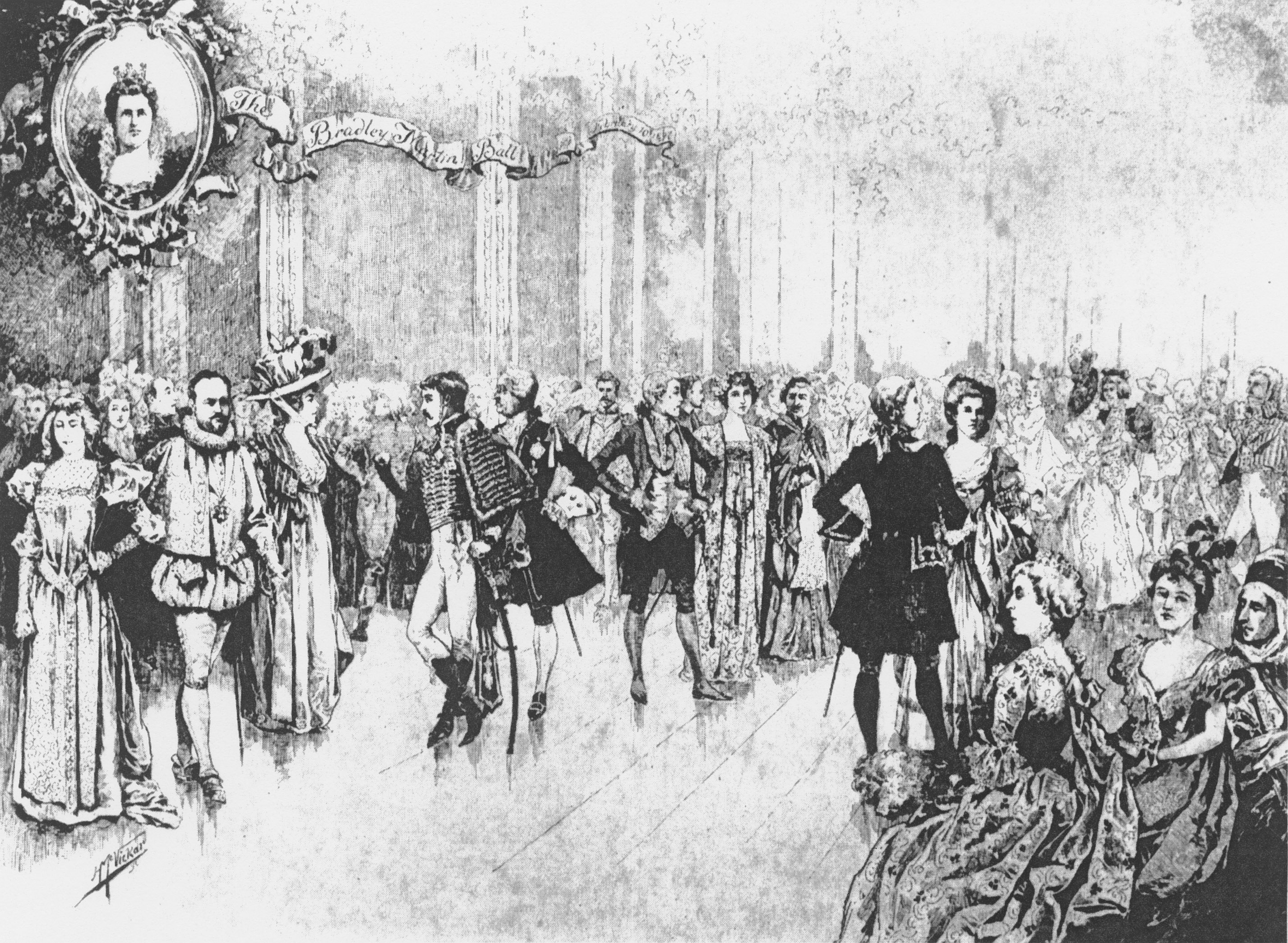 Bradley-Martin Ball of 1897 from the Harper's Weekly Illustrated Newspaper